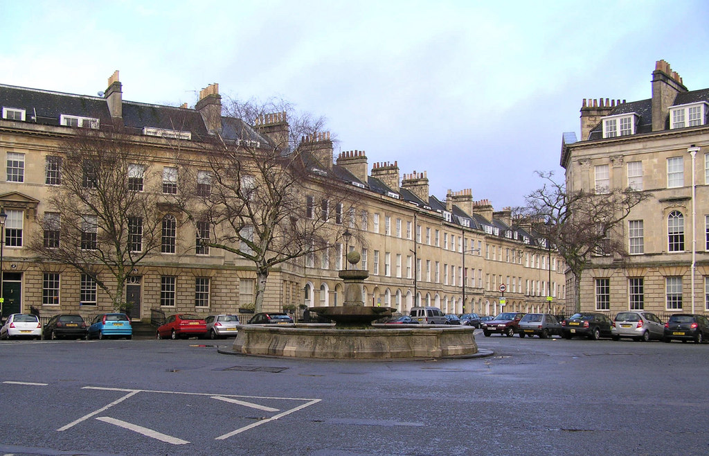 Fountain in Laura Place Named after the daughter of Sir William Pulteney, Henrietta Laura (1766-1808) who was his heiress of his vast estates in England (including parts of London) Widcombe in Bath and a large area in USA. She became the Countess of Bath.